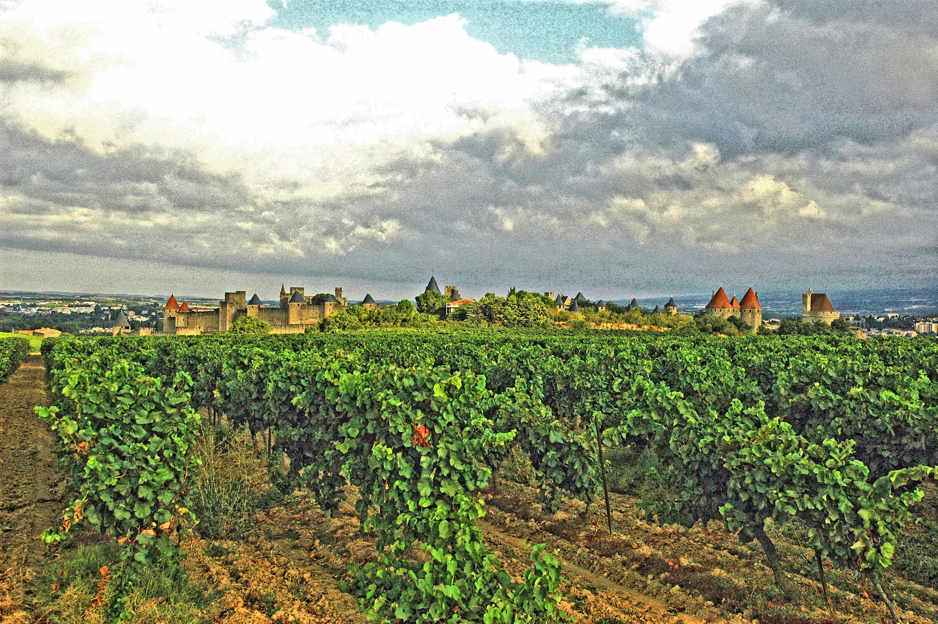 General View on Carcassonne's City wall from the Southwest (Southwest of France)